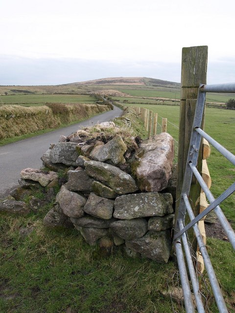 Road on Pinnockshill The road runs right along the eastern side of Colliford Lake. Here it crosses a low hill near the northeastern corner of the reservoir. The rounded hill in the background is Brown Gelly, in SX1972.